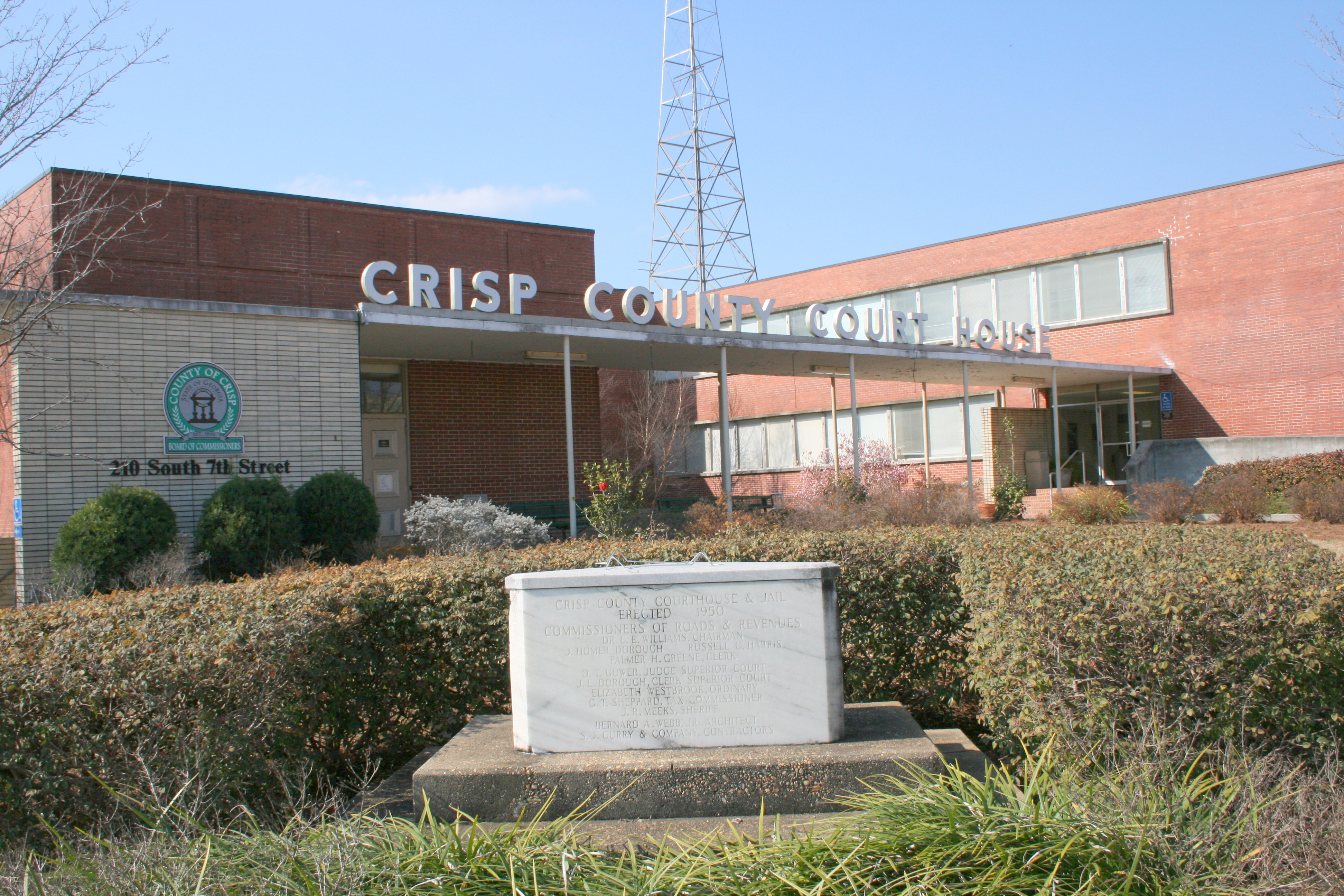 Crisp County Courthouse in Cordele, Georgia